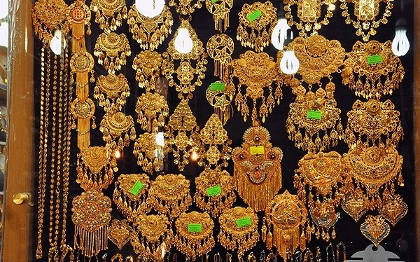 Bazaar of Zahedan - 18 March 2013. main album